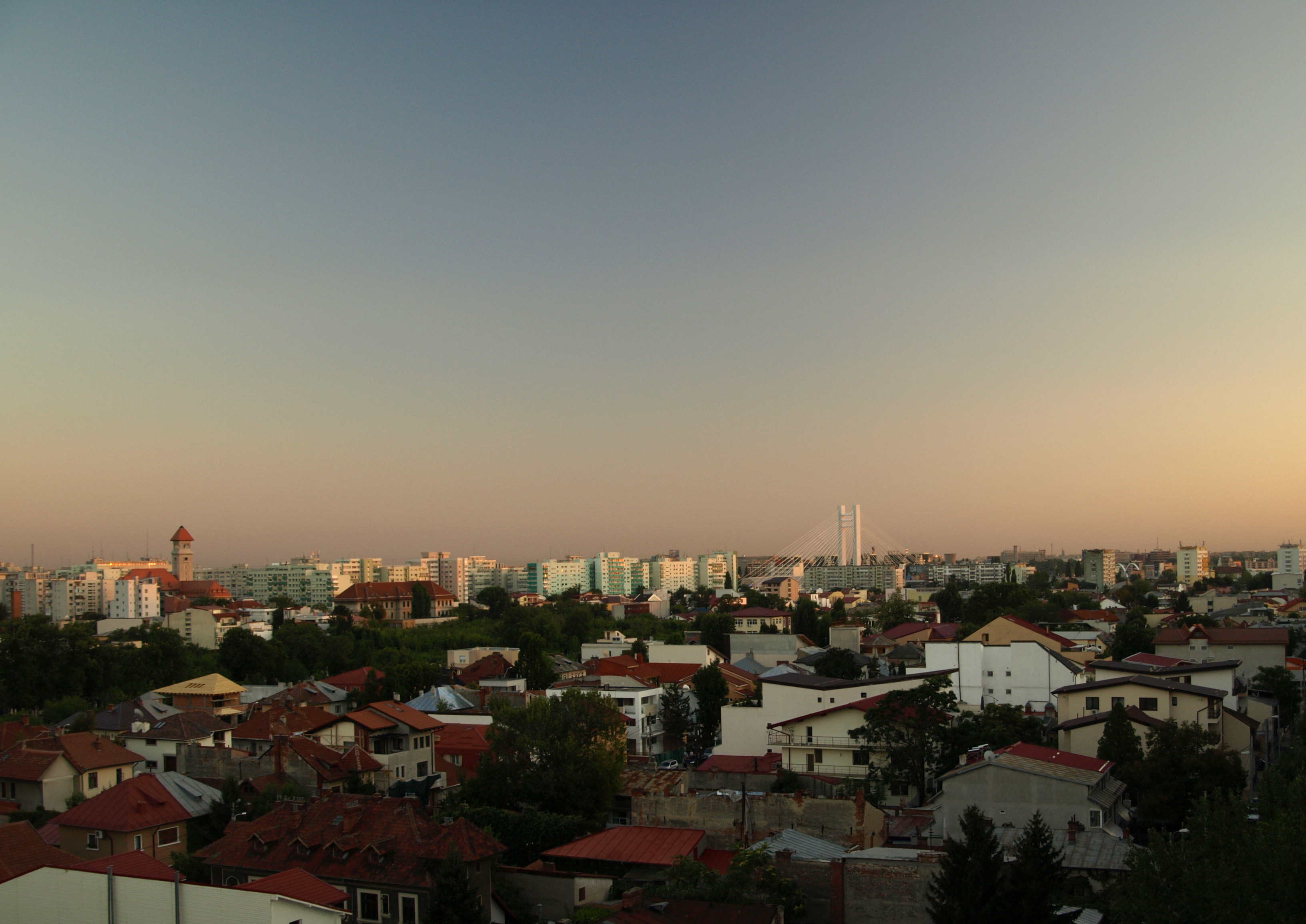 Photo taken on August 31, 2012 from a ten storey building.